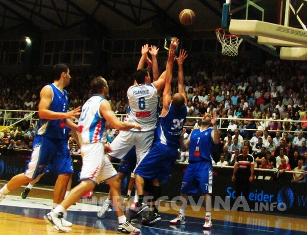 Pecara hall